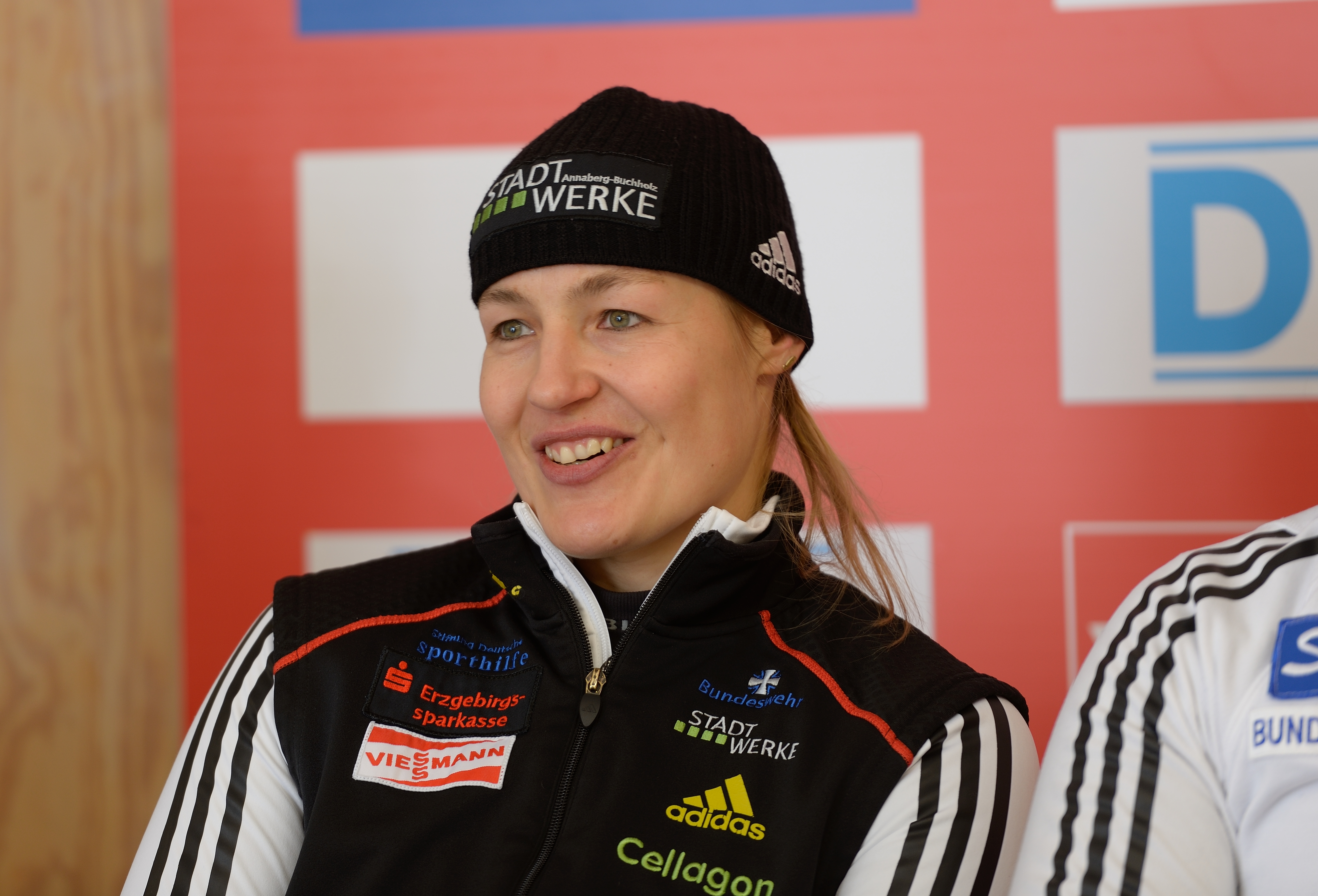 Luge world cup race season 2014/15 in Altenberg/Germany, 19th to 22nd Februar 2015. Day 1: training - press conference german team.